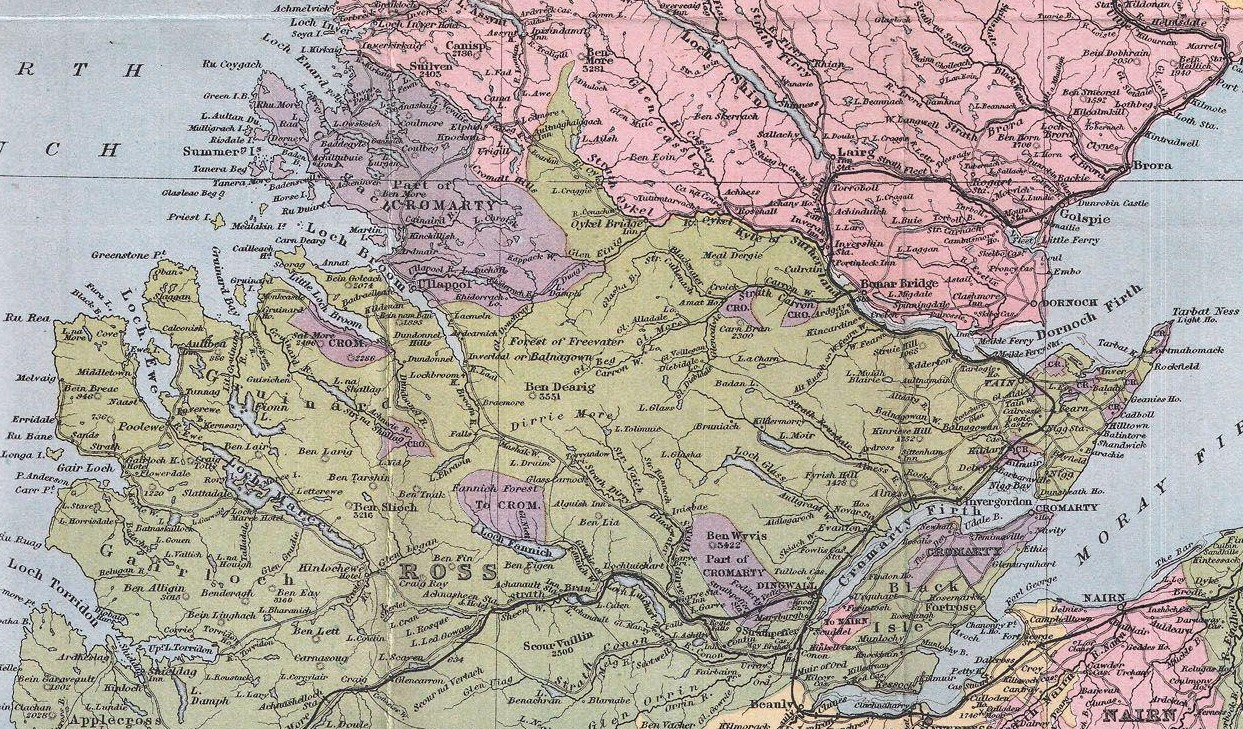 Cropping from File:1892 Tourist's New Map of Scotland - Geographicus - Scotland-bartholomew-1892.jpg showing Cromartyshire and adjacent areas. Note that a few small fragments of Cromartyshire are erroneously coloured green for Ross-shire, e.g. the southern part of Gruinard Island.